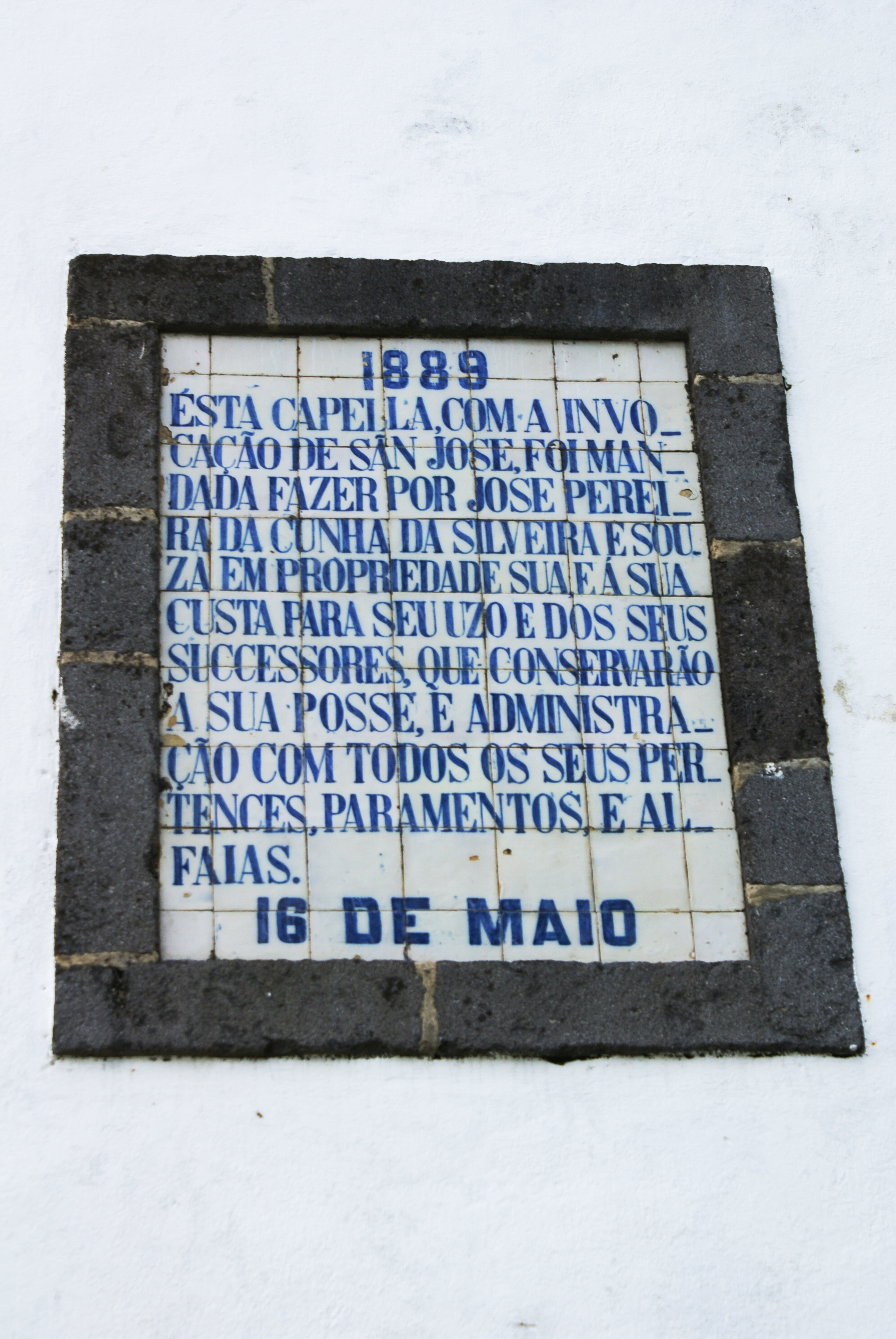 Memorial plaque on the Chapel of São José, Toledo, Velas, São Jorge (Azores), Portugal